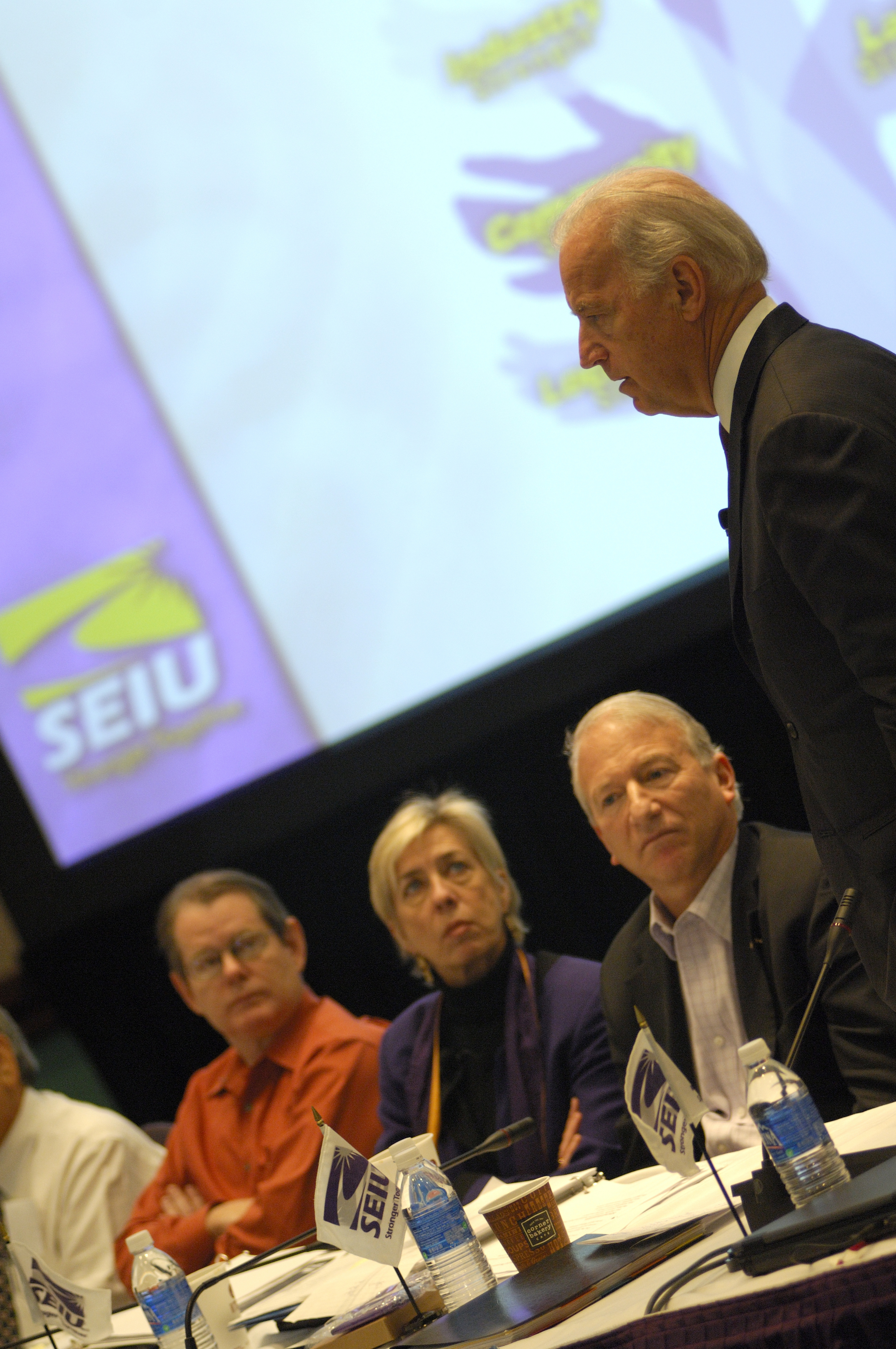 On Jan. 26-27, 2007 at Gallaudet University in Washington DC, SEIU local union leaders individually questioned eight Democratic presidential hopefuls—Sen. Hillary Clinton (D-NY), Sen. Barack Obama (D-IL), Sen. Joe Biden (D-DE), Rep. Dennis Kucinich (D-OH), former Sen. John Edwards (D-NC), Sen. Chris Dodd (D-CT), Gov. Bill Richardson (D-NM), and former Gov. Tom Vilsack (D-IA) —about where they stand on the issues that matter most to SEIU members: affordable health care, good jobs, and retirement security.